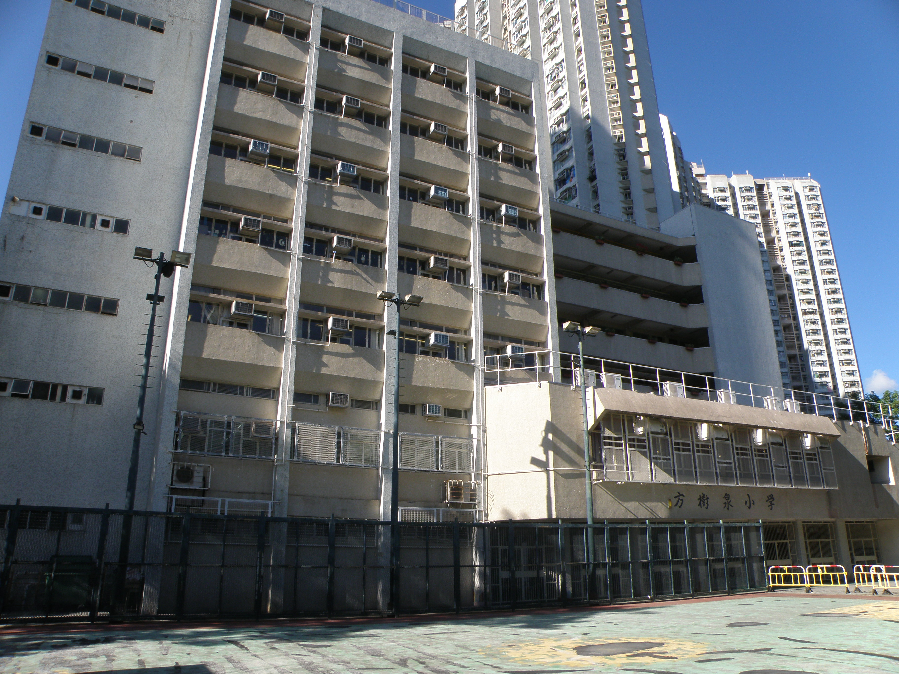 Fong Shu Fook Tong Foundation Fong Shu Chuen Primary School in Fanling, Hong Kong.